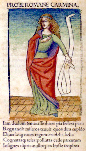 An image of Faltonia Betitia Proba holding a scroll. Underneath is the beginning of her Cento.